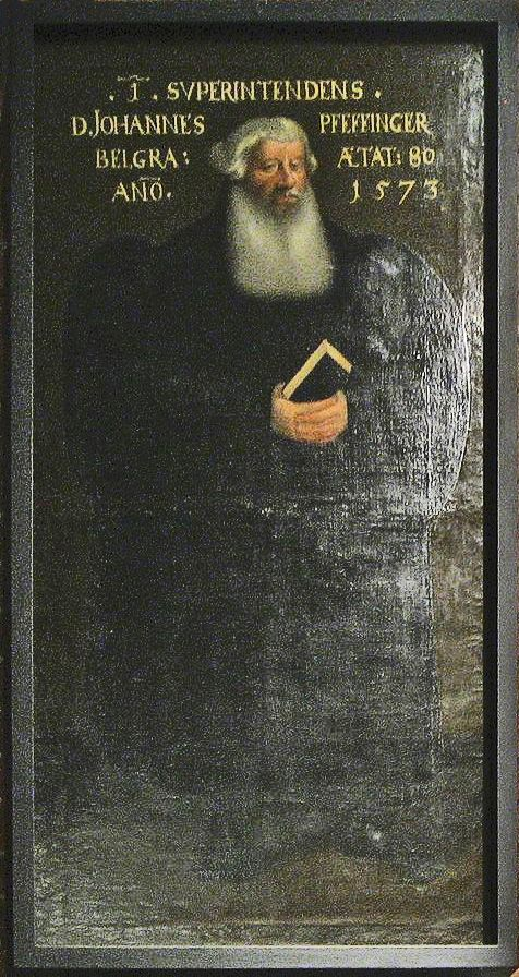 Johann Pfeffinger (1493–1573); oil on canvas, Thomaskirche Leipzig, 2.02*1.04 m, painted 1614 of Johann von der Perre († 1621)